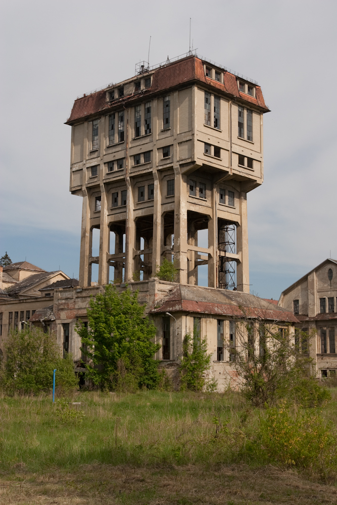 Abandoned mine near Pécs, Hungary